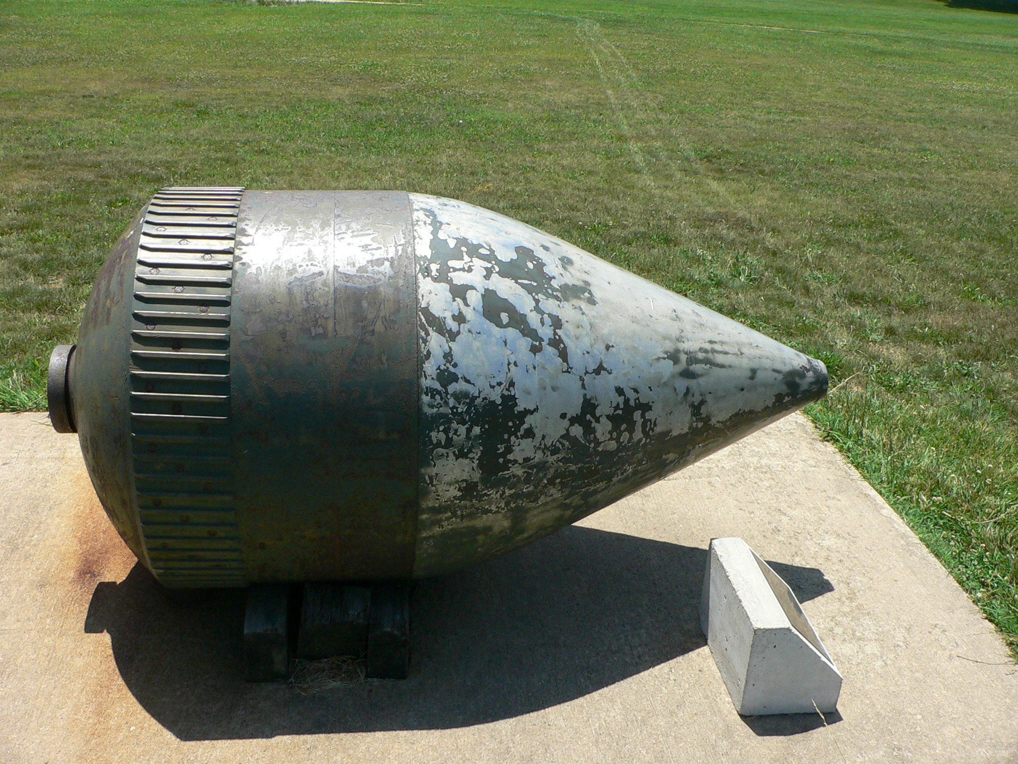 Shell from the US 36-inch (914 mm) mortar Little David, at the United States Army Ordnance Museum (Aberdeen Proving Ground, MD).